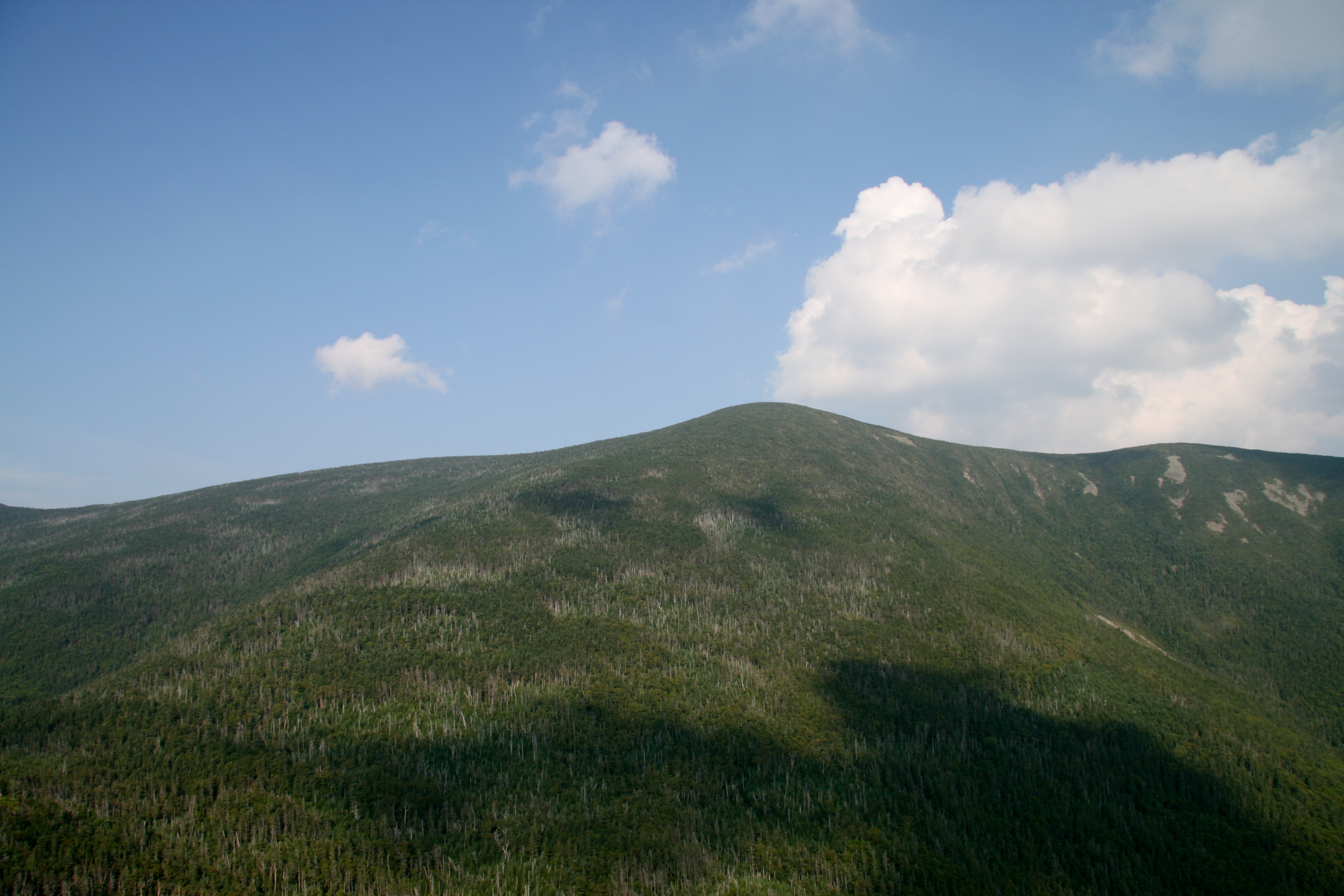 South Twin viewed from Galehead Mountain, White Mountain National Forest, New Hampshire.